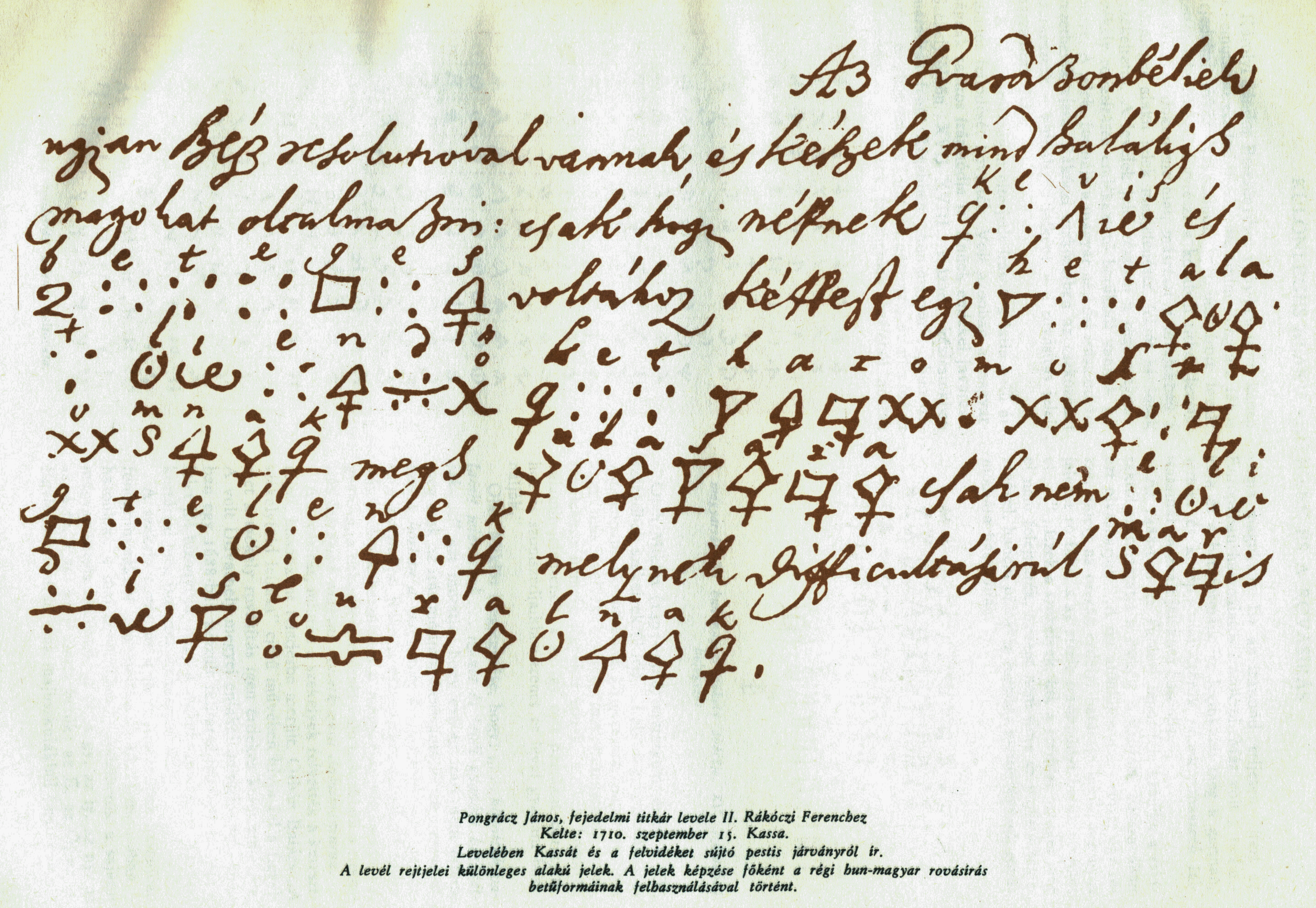 Encrypted letter from János Pongrácz, secretary of the Prince, to Francis II Rákóczi about the plague around Kosice. The encryption is partially based on the Old Hungarian script.label QS:Len,"Encrypted letter from János Pongrácz, secretary of the Prince, to Francis II Rákóczi about the plague around Kosice. The encryption is partially based on the Old Hungarian script." label QS:Lhu,"Pongrácz János fejedelmi titkár levele II. Rákóczi Ferenchez Kassáról. Témája a környéket sújtó pestisjárvány. A titkosírás nagyrészt a székely-magyar rovásírás elemeit használja."